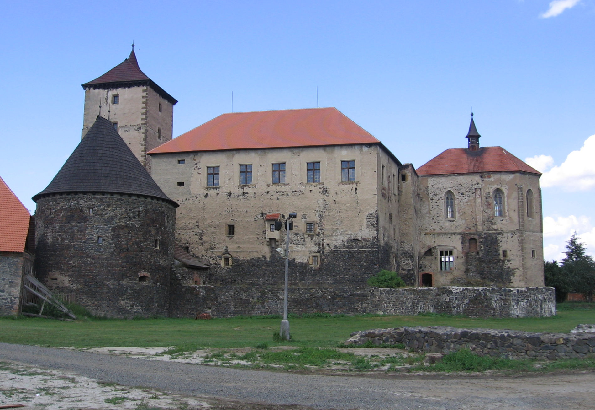 Švihov from the south